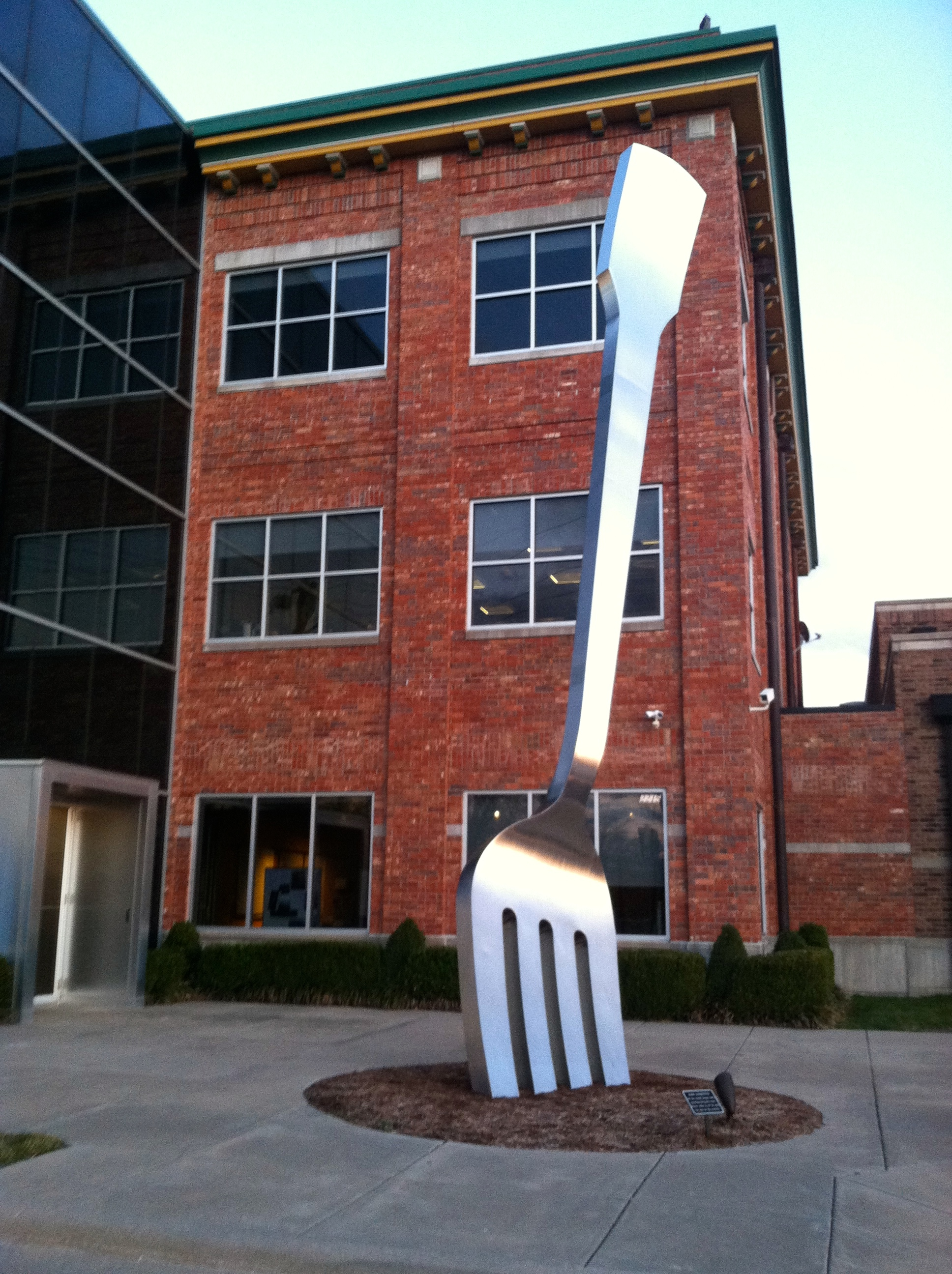 The Largest Fork, standing 35' and weighing 11 tons in Springfield, Missouri.